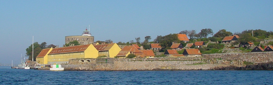 Denmark island Christianso (Ertholmene_archipelago)